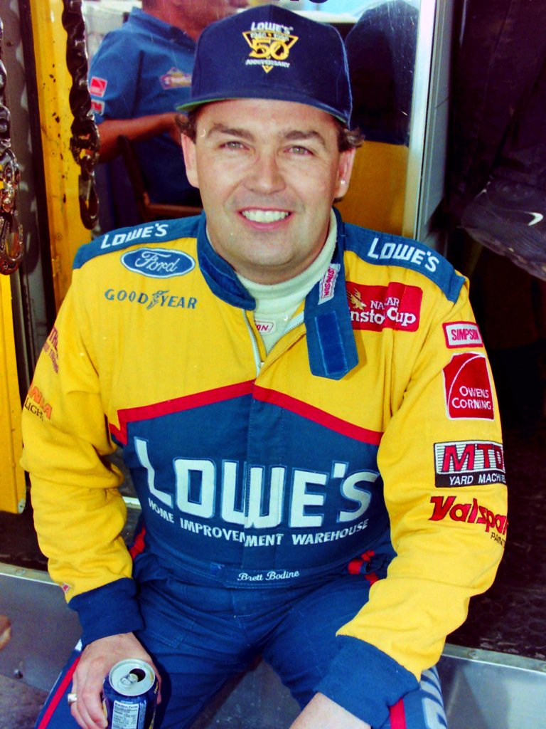 Brett Bodine in his Lowe's firesuit during the 1996 Winston Cup Series season.